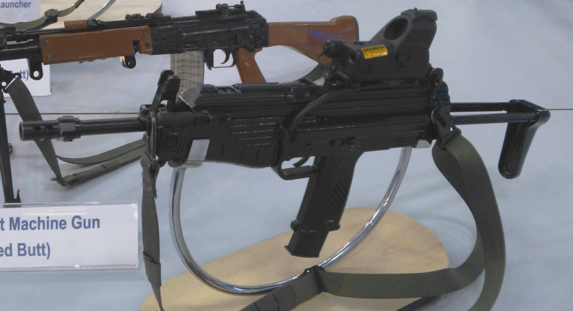 MSMC - Developed by ARDE Pune